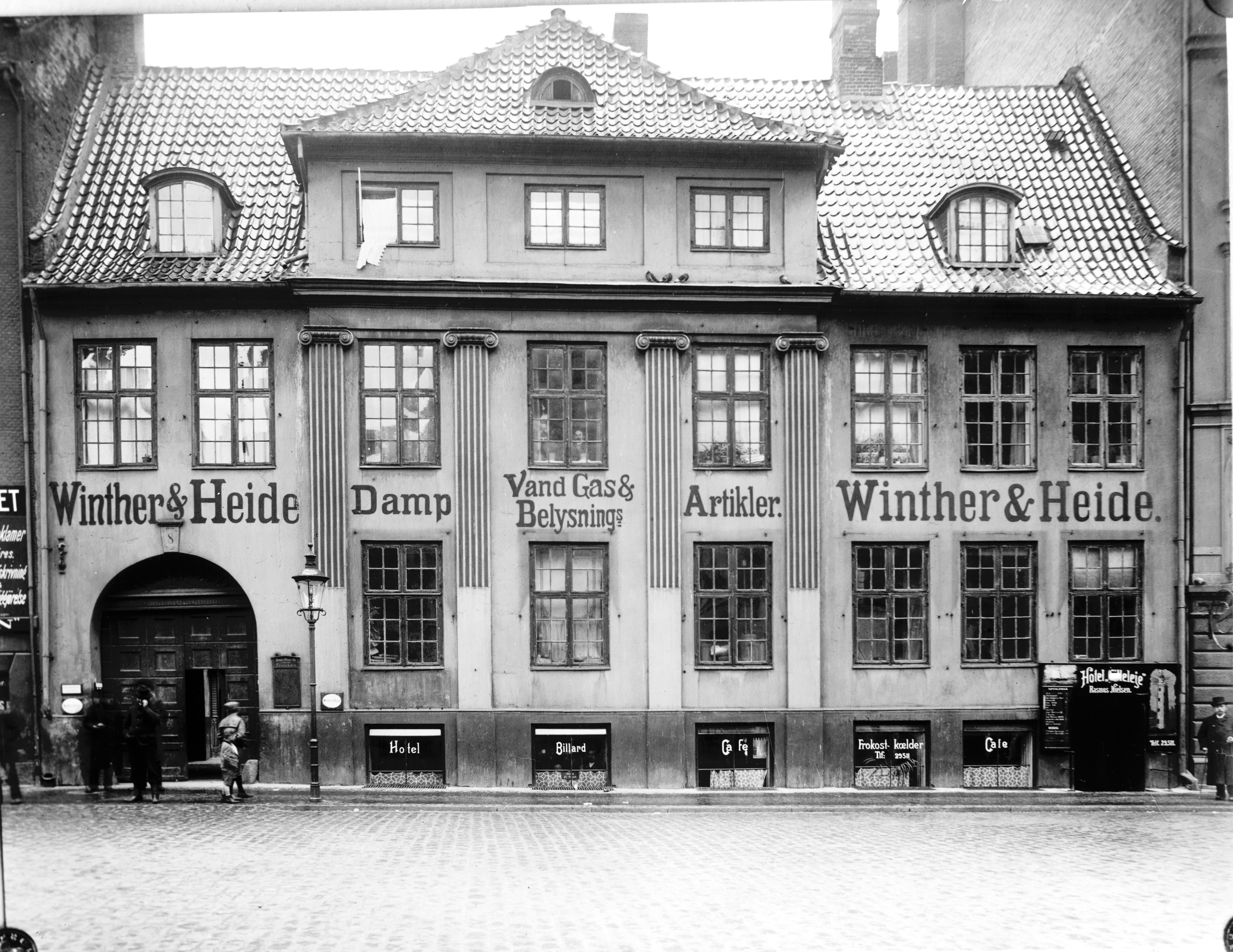 Vandkunsten 8 in Copenhagen, Denmark